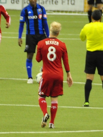 Kyle Bekker vs. Montreal Impact